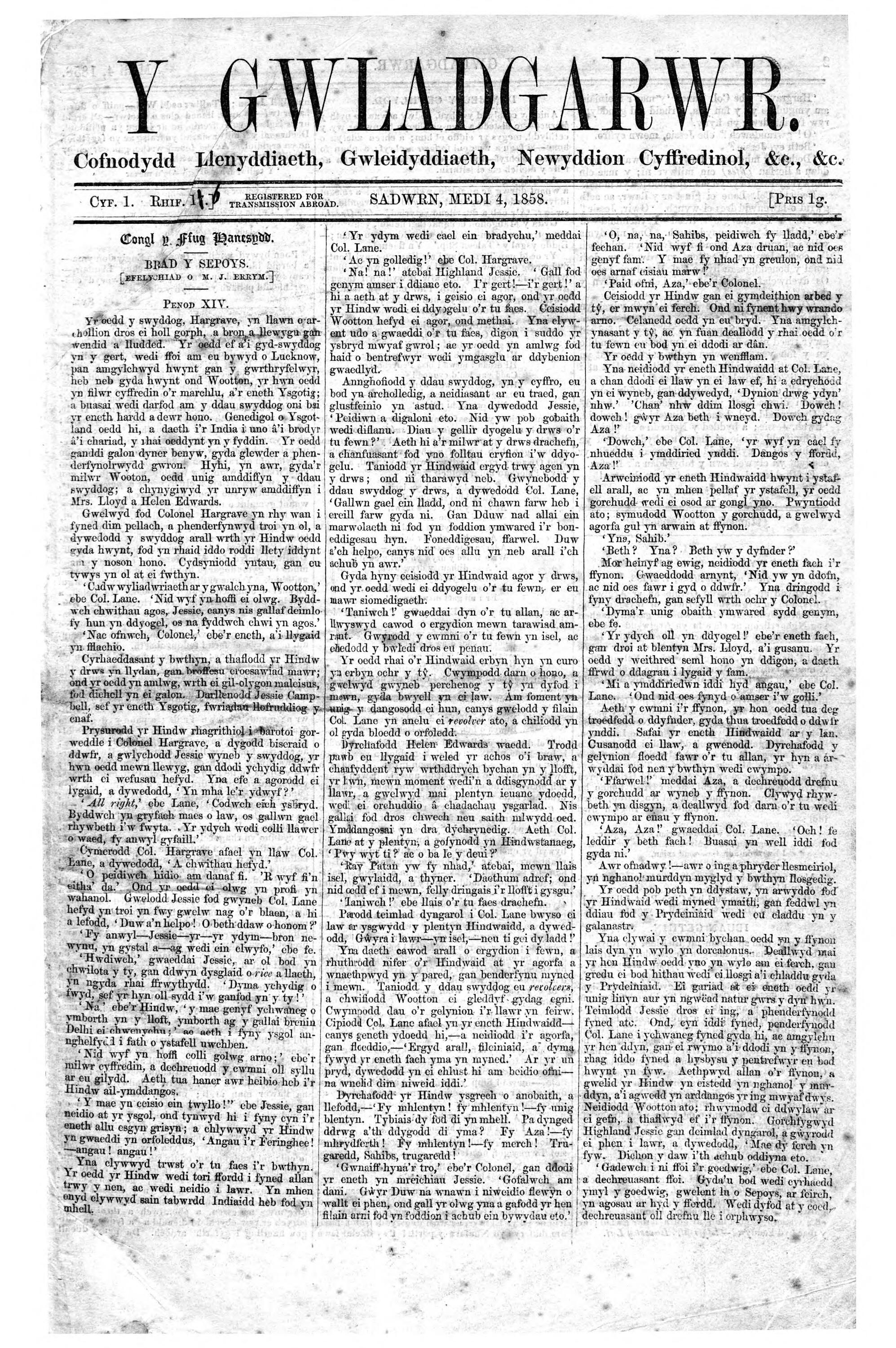 Front page of the earliest surviving copy of the Welsh newspaper Y GwladgarwrCymraeg: Tudalen flaen y copi cynharaf sydd yn bodoli o'r papur newydd Cymraeg Y Gwladgarwr